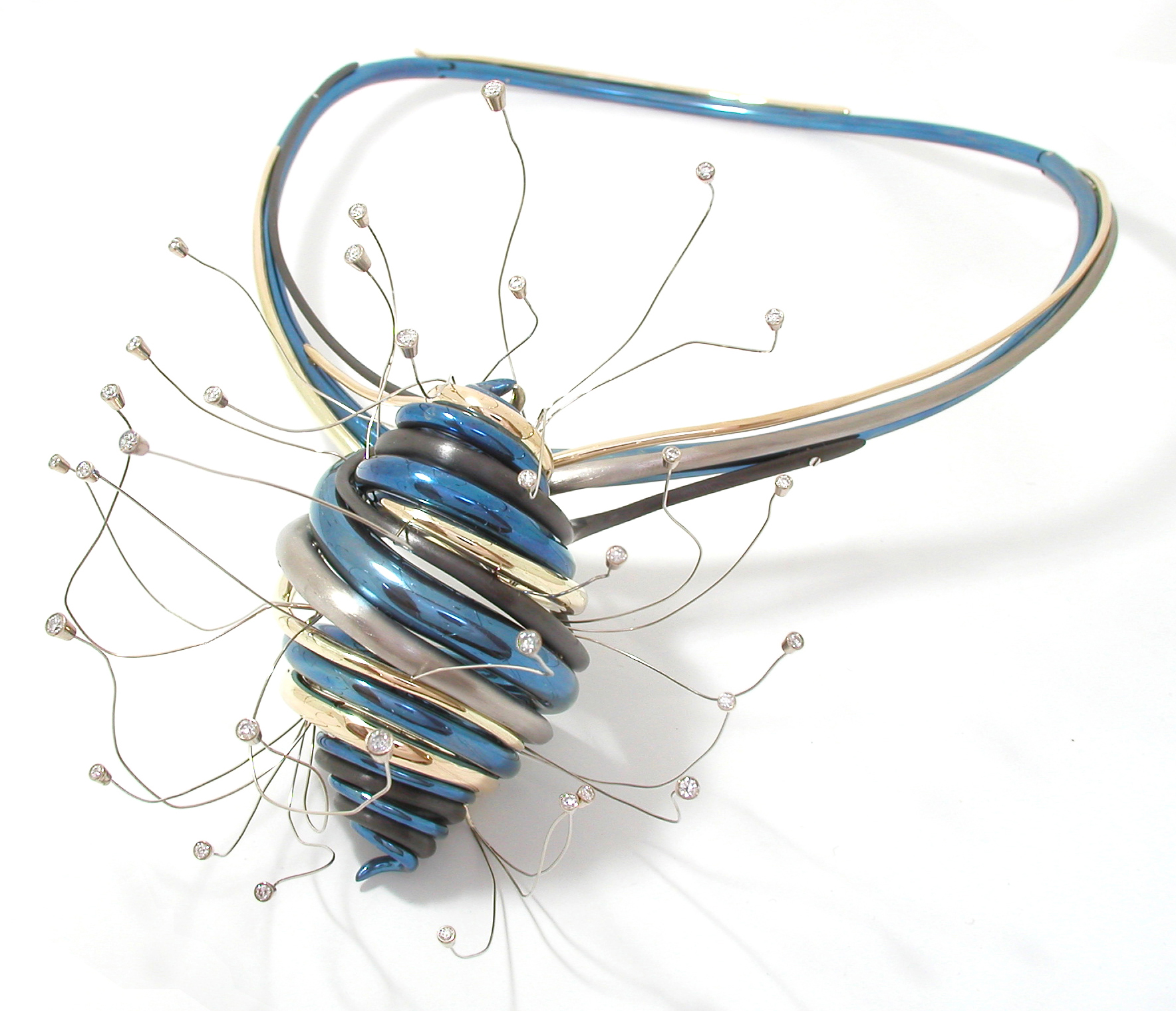 'Sparling Vortex', First Prize in Dutch Design Contest 2007. Designed and conducted by Marc Lange. Made of titanium (for the most part blue coloured), zirconium, yellow and white gold and set with diamonds.